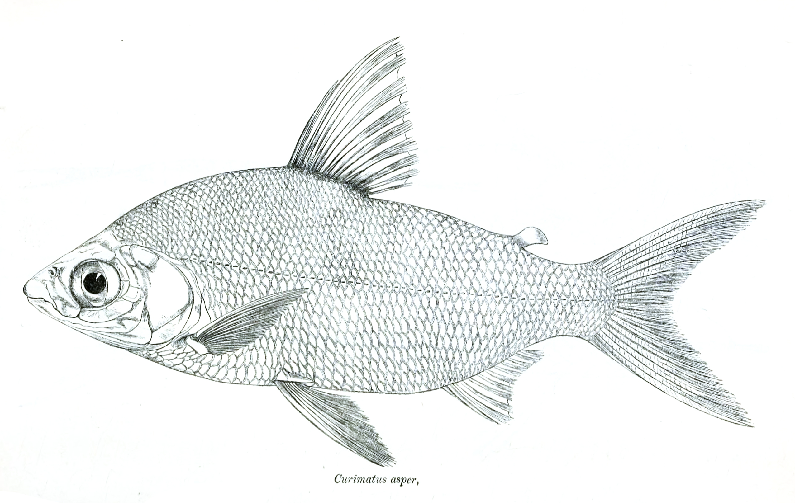 Curimatus asper = Curimata aspera (Günther, 1868)